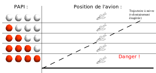 This picture illustrates how works a PAPI or a VASI. Made with open source software. Use it as you like.